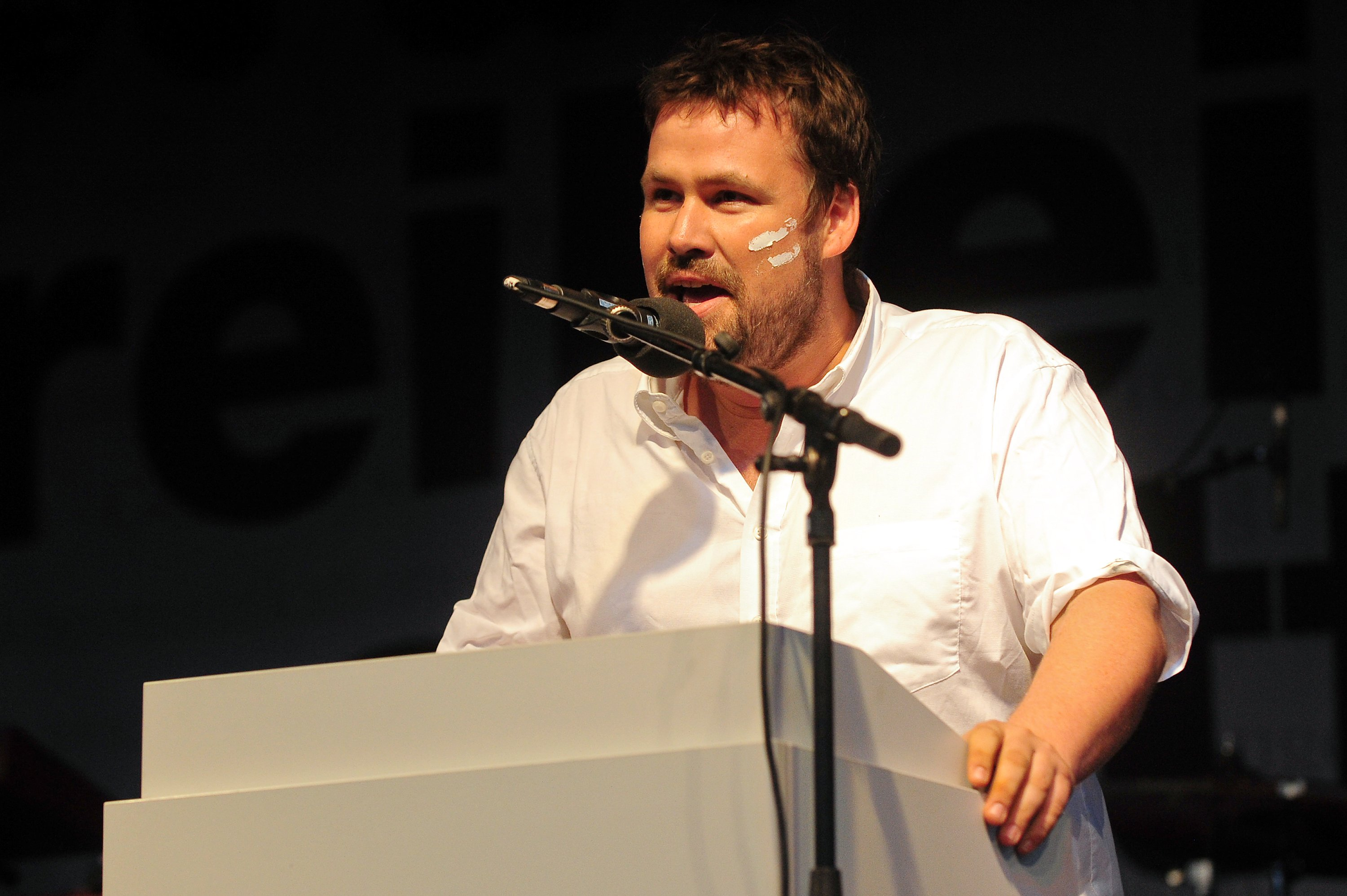 Monty Cantsin von der Hedonistischen Internationalen auf der Demonstration "Freiheit statt Angst" 2009